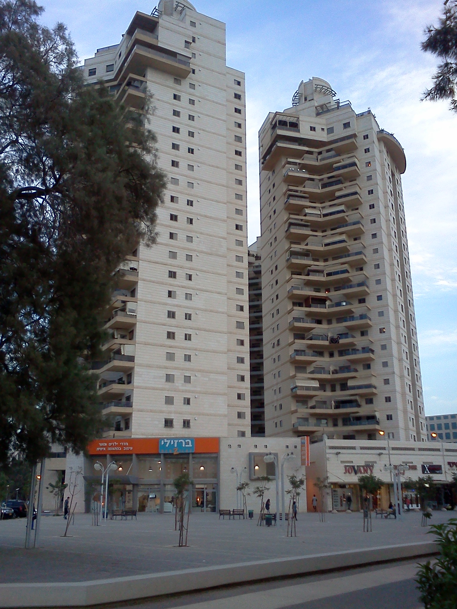 "Keren" towers, Beersheba, 2012. Skyscrapers with about 30 floors each, where once stood the "Keren" Cinema theater.